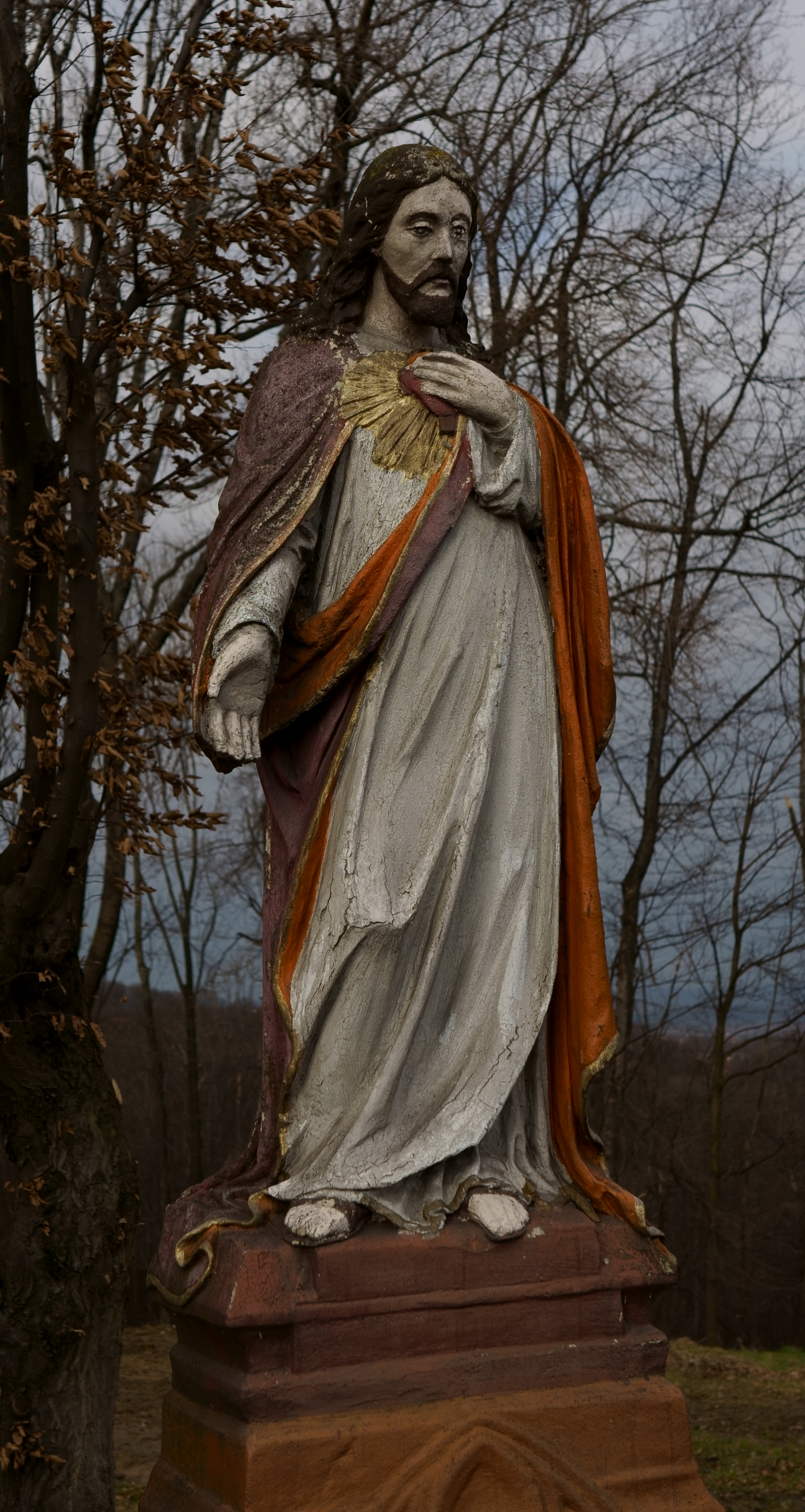 Tombstone monument Walenty Syrek Mogilany